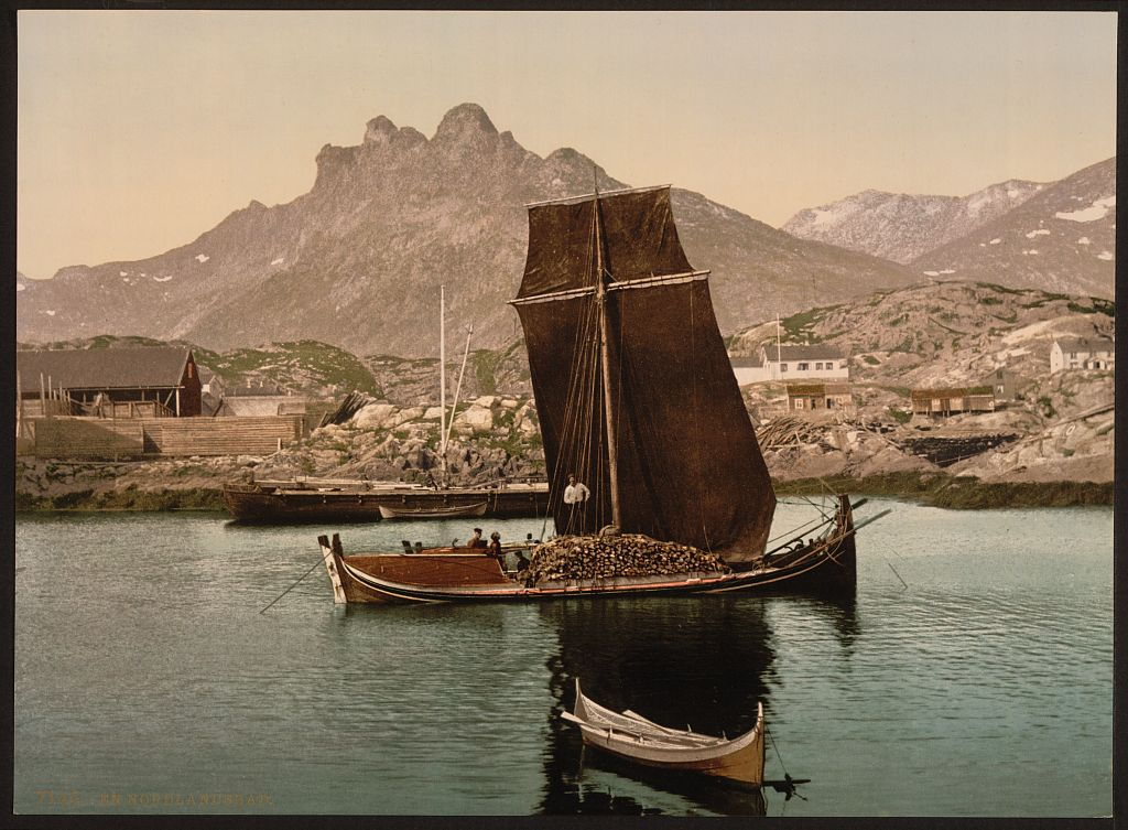 [In Nordlandsbaad, Nordland, Norway] [between ca. 1890 and ca. 1900]. 1 photomechanical print : photochrom, color. Notes: Title from the Detroit Publishing Co., Catalogue J--foreign section. Detroit, Mich. : Detroit Publishing Company, 1905. Print no. 7145. Forms part of: Landscape and marine views of Norway in the Photochrom print collection. Subjects: Norway--Nordland. Format: Photochrom prints--Color--1890-1900. Repository: Library of Congress, Prints and Photographs Division, Washington, D.C. 20540 USA, Part Of: Landscape and marine views of Norway (DLC) 2001699563 More information about the Photochrom Print Collection is available at Persistent URL: Call Number: LOT 13432, no. 093 [item]